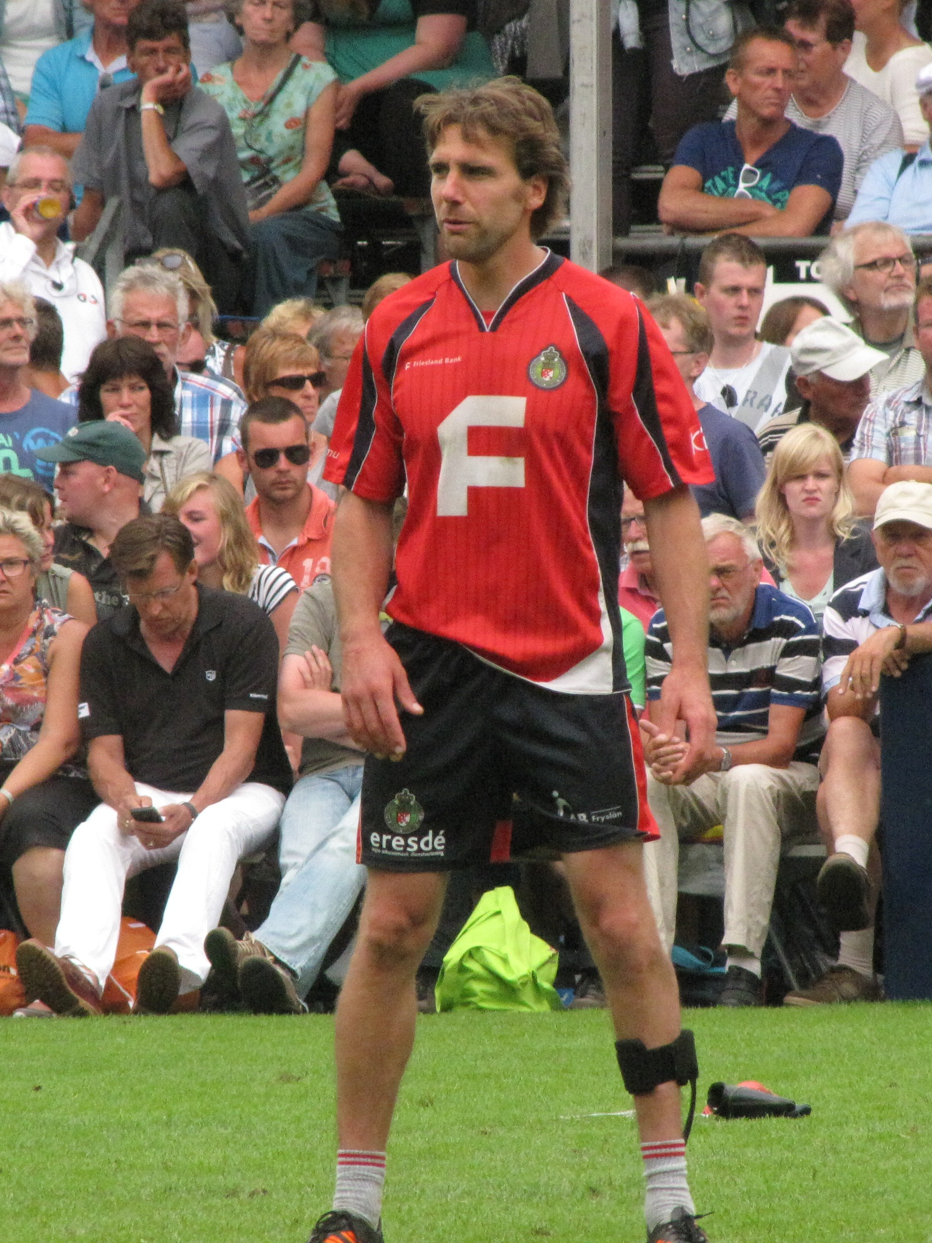 Cornelis Terpstra on the PC of 2013Frysk: Cornelis Terpstra op de PC fan 2013